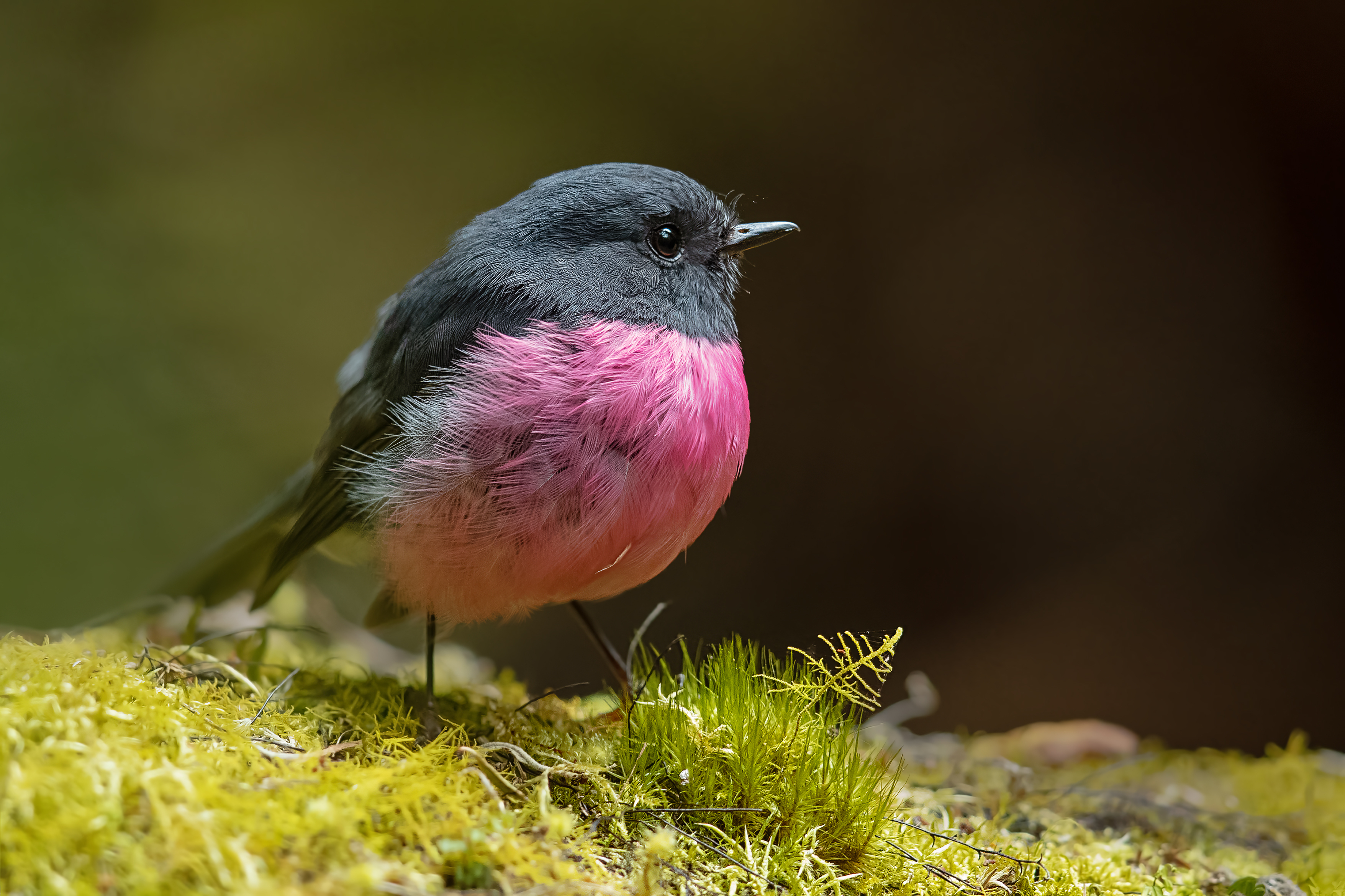 Pink Robin (Petroica rodinogaster). Mount Field National Park, Tasmania, Australia